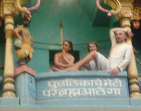 Vithoba(right, dark standing figure) waits as Pundalik (centre) serves his parents. Sculpture from gopuram of a temple in Pandharpur